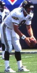 Backup QB #8 Mark Brunell warming up with the team for the Jacksonville Jaguars inaugural game against the Houston Oilers. Photo deemed in public domain by James Gaines.